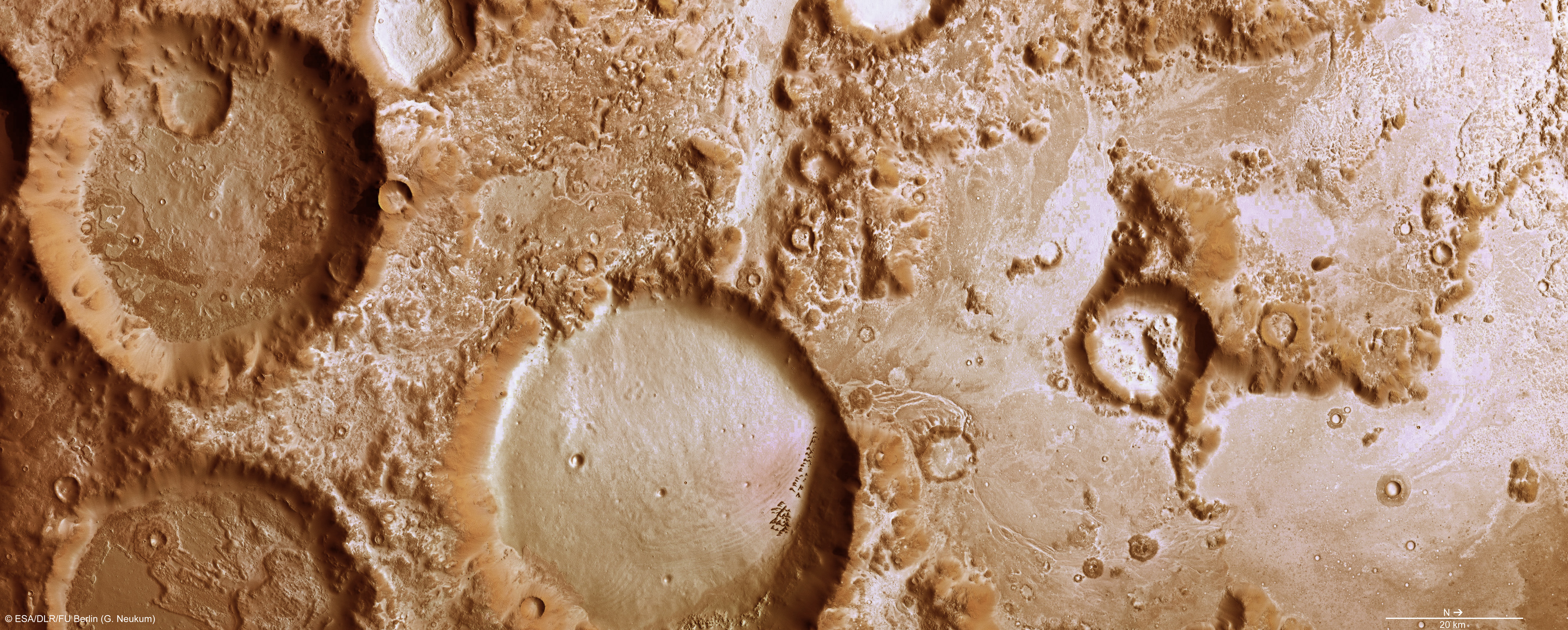 High-Resolution Stereo Camera (HRSC) nadir and colour channel data taken during revolution 10778 on 18 June 2012 by ESA’s Mars Express have been combined to form a natural-colour view of Charitum Montes. Centred at around 53°S and 334°E, the image has a ground resolution of about 20 m per pixel. The heavily cratered region in this image is at the edge of the almost 1000 km long mountain range, which itself wraps around the boundary of the Argyre impact basin, the second largest on Mars. Credit: ESA/DLR/FU Berlin (G. Neukum), CC BY-SA 3.0 IGO Copyright Notice: This work is licenced under the Creative Commons Attribution-ShareAlike 3.0 IGO (CC BY-SA 3.0 IGO) licence. The user is allowed to reproduce, distribute, adapt, translate and publicly perform this publication, without explicit permission, provided that the content is accompanied by an acknowledgement that the source is credited as 'ESA/DLR/FU Berlin’, a direct link to the licence text is provided and that it is clearly indicated if changes were made to the original content. Adaptation/translation/derivatives must be distributed under the same licence terms as this publication. To view a copy of this license, please visit